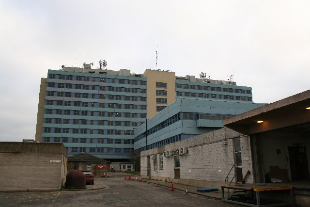 Pilgrim Hospital, Boston. United Lincolnshire Hospitals NHS Trust - the main block that is Pilgrim Hospital, serving South Lincolnshire.